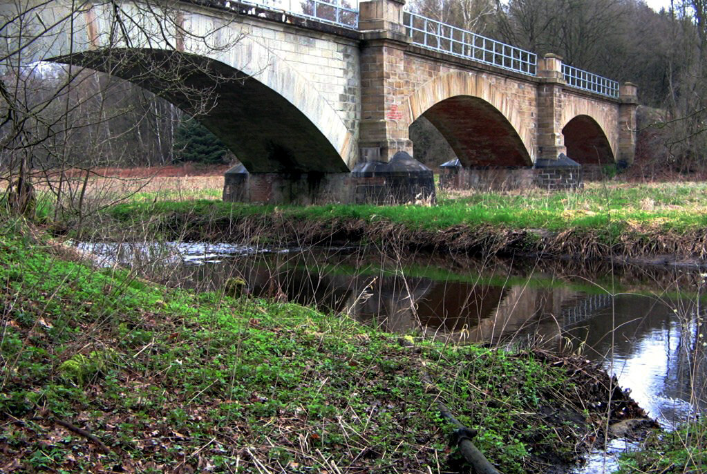 Bridge of railway Bomlitz-Walsrode over river Böhme near the bird's park of Walsrode